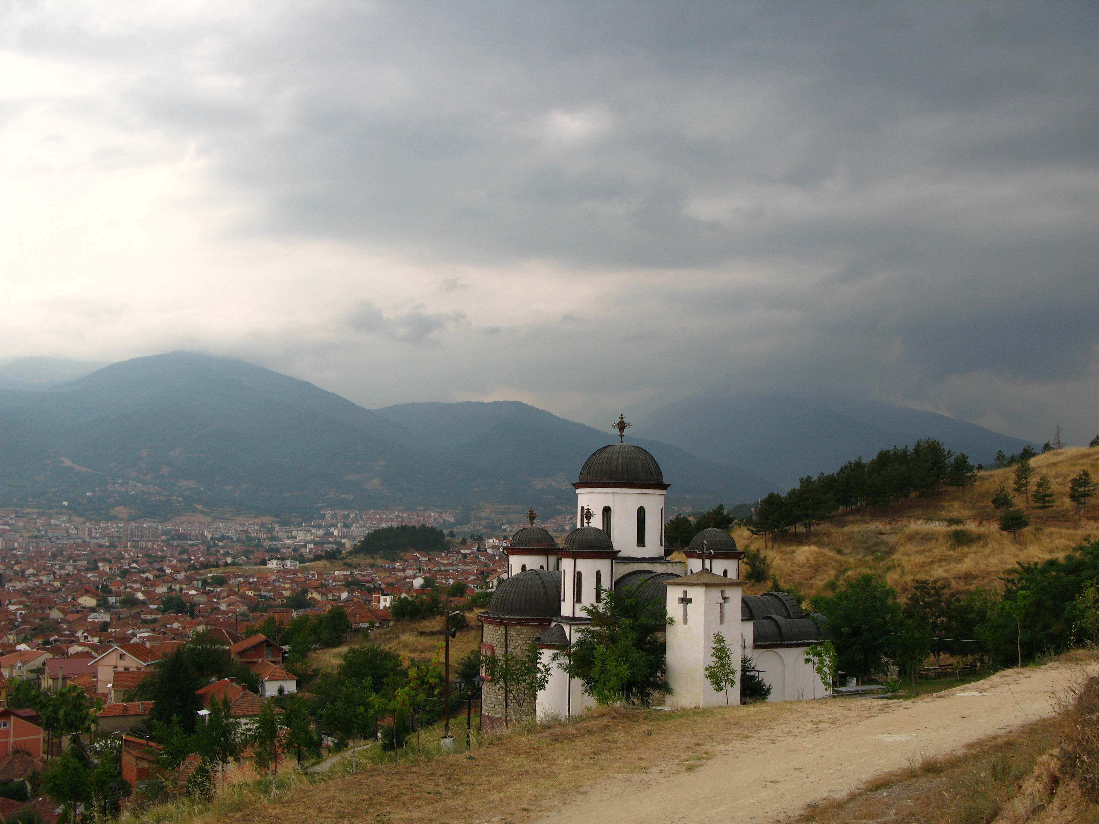 Church "40 martyrs of Sebaste" on Krkardash hill, Bitola, Macedonia.